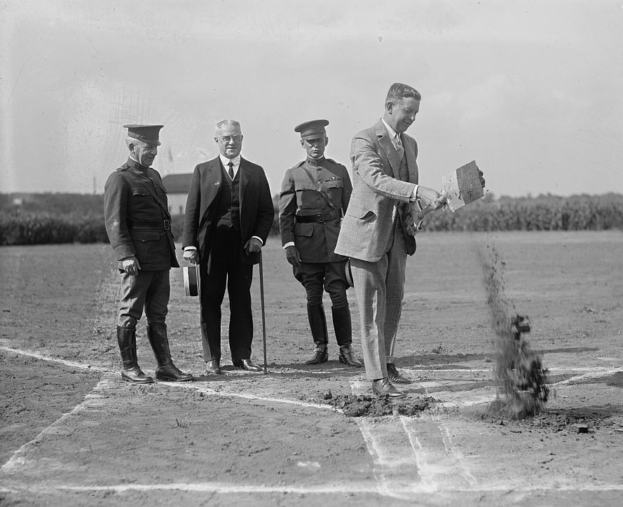 Dwight F. Davis and others break ground on Anacostia Park in Washington, D.C., in the United States on August 23, 1923. The park was land reclaimed from the Anacostia River between 1903 and 1922, and created used material dredged from the river's bottom.